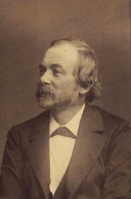 Gottfried Burman Becker (1831-1894), Danish jurist and civil servant